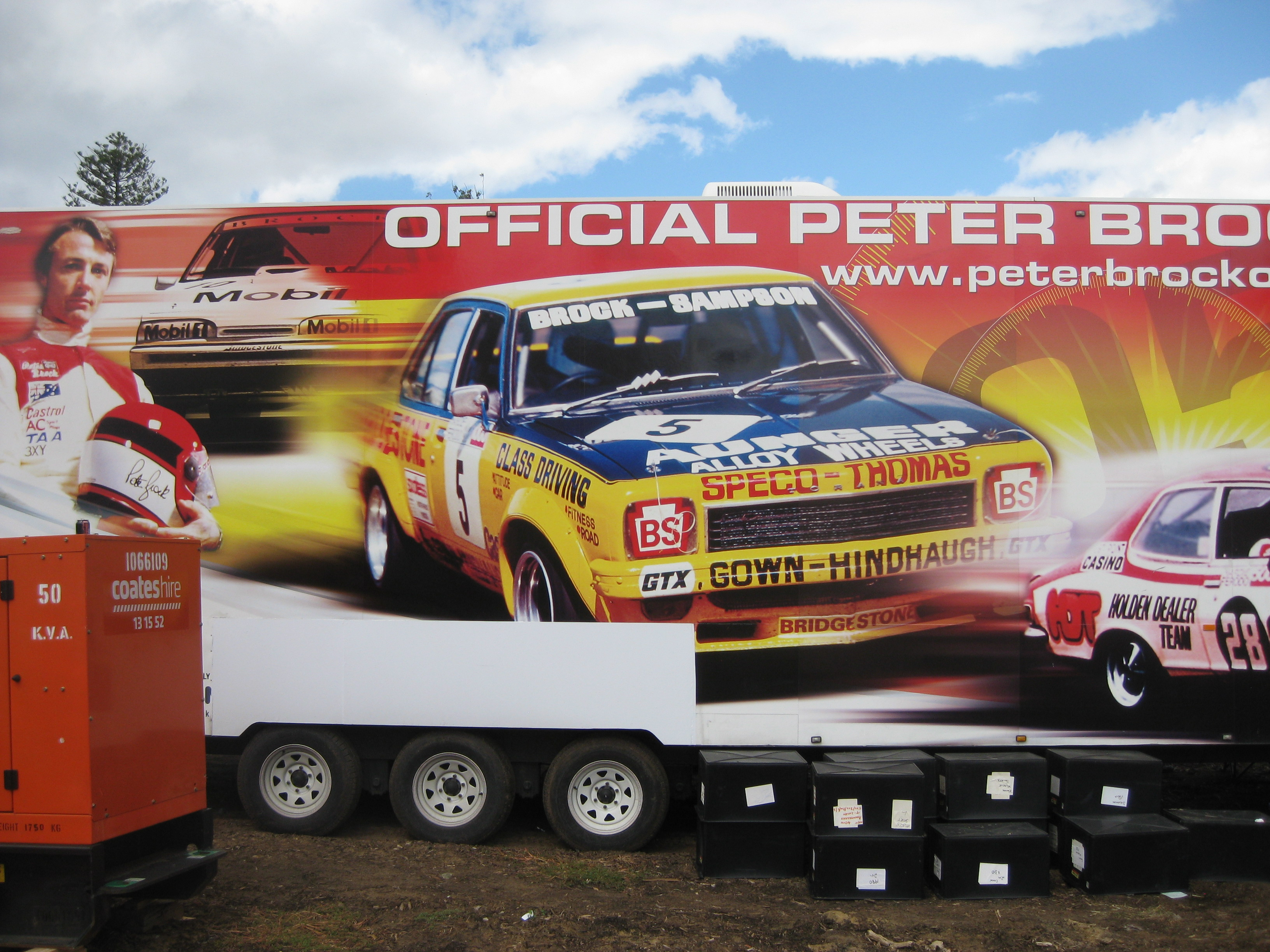 Official Peter Brock Merchandise Truck at the 2012 Clipsal 500 Adelaide